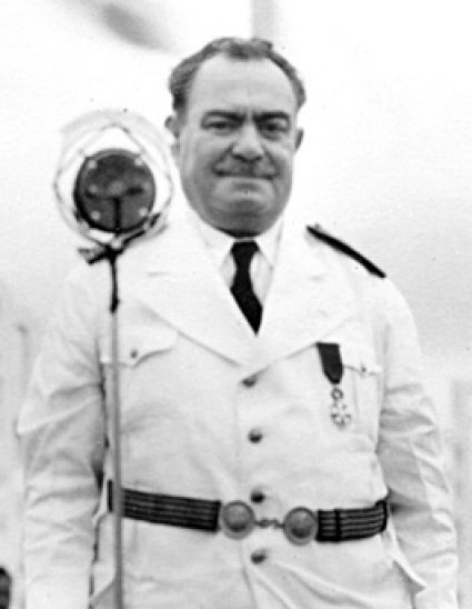 Photography of Louis Bonvin, governor of French India (1938-1945)